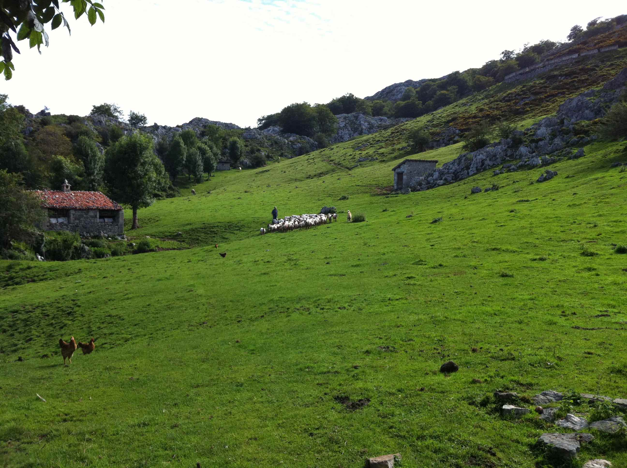 It is one of the rare mountain pastures of Los Picos de Europa with quesera activity during the summer months (2019)